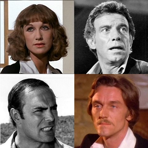 Some of the cast of the film Tenebrae: Anthony Franciosa, Daria Nicolodi, John Saxon, John Steiner